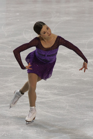 Laura Lepistö at the 2010 European Figure Skating Championships.